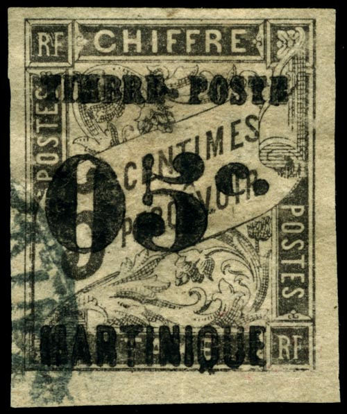 Martinique 5c overprint of 1892 on 5c postage due stamp